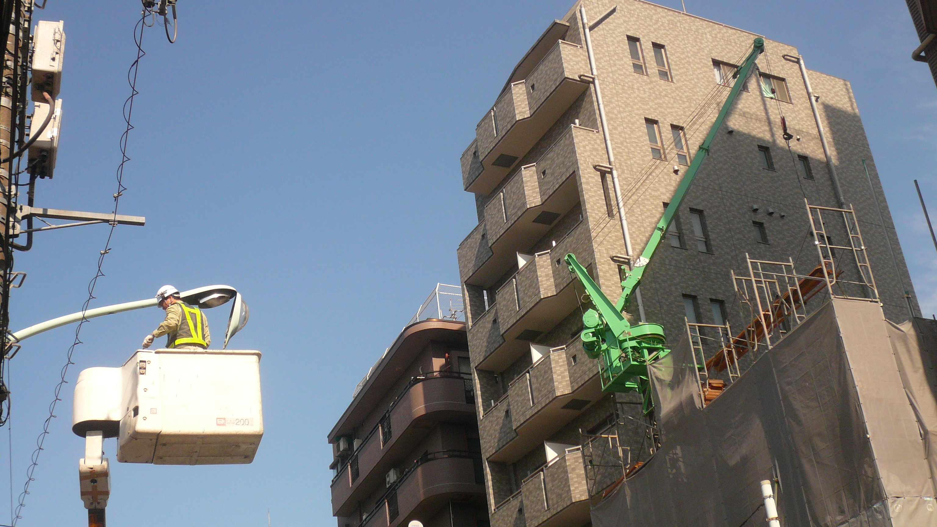 街灯の整備、東京にて （Street light maintenance in Tokyo）